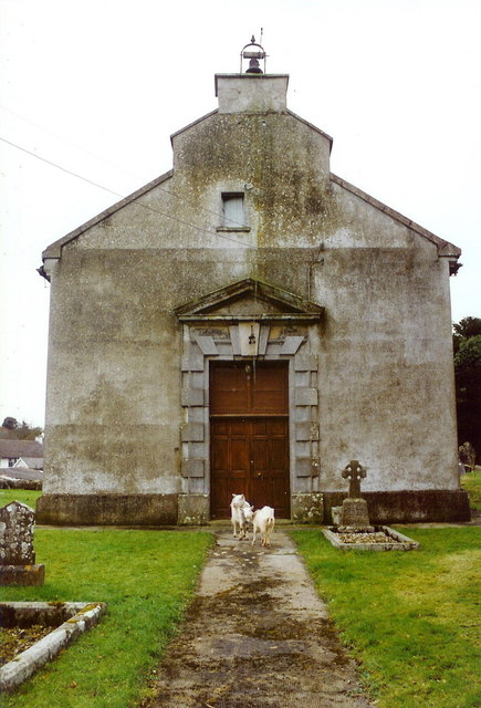 Church of SS. Peter and Paul, Drumcondra West front with Gibbs surround to doorcase, bellcote and goats